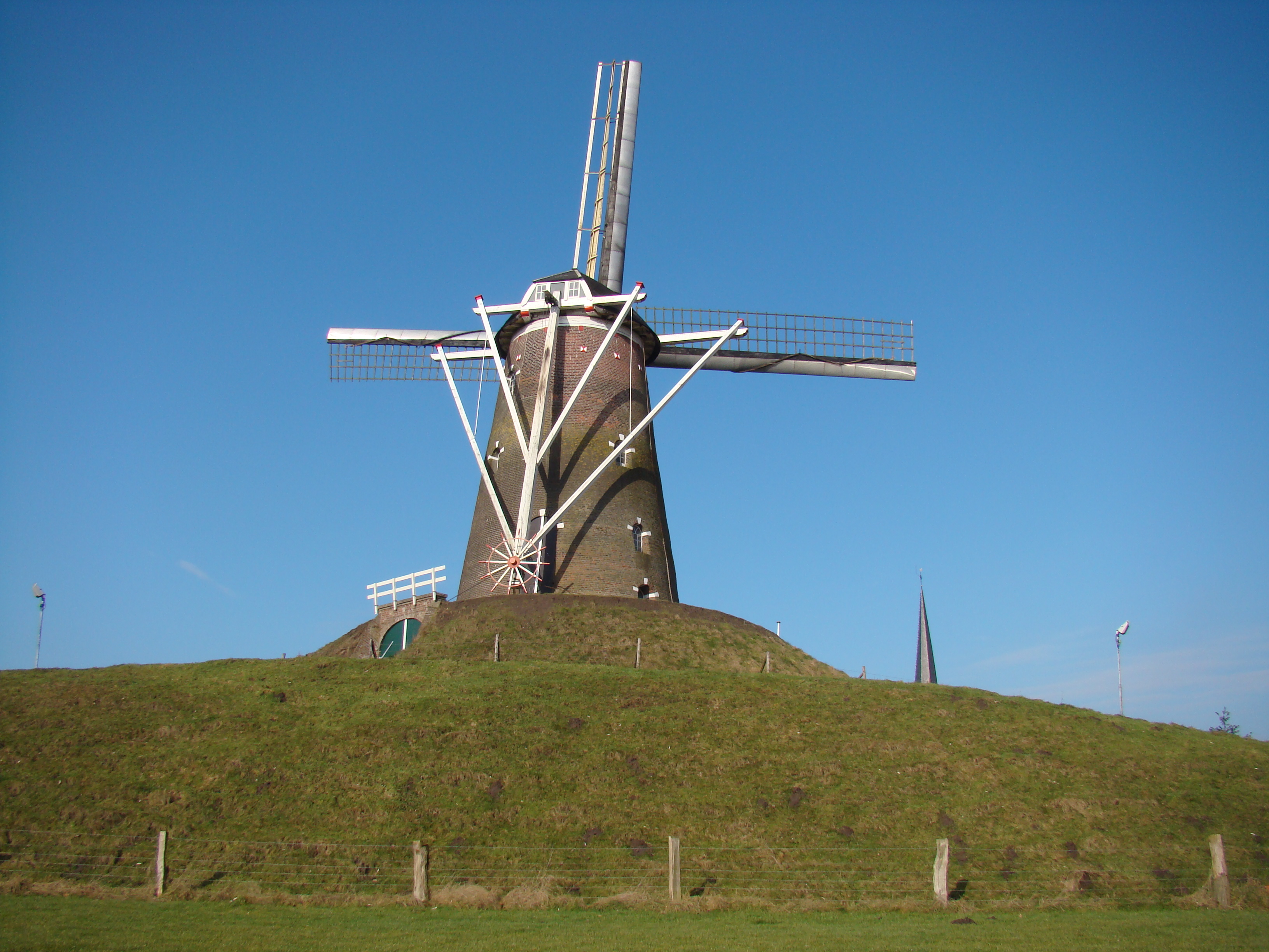 Windmill Prins van Oranje at Bredevoort (Netherlands)